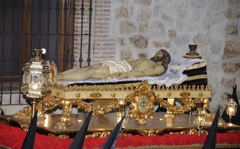 Santo Entierro.